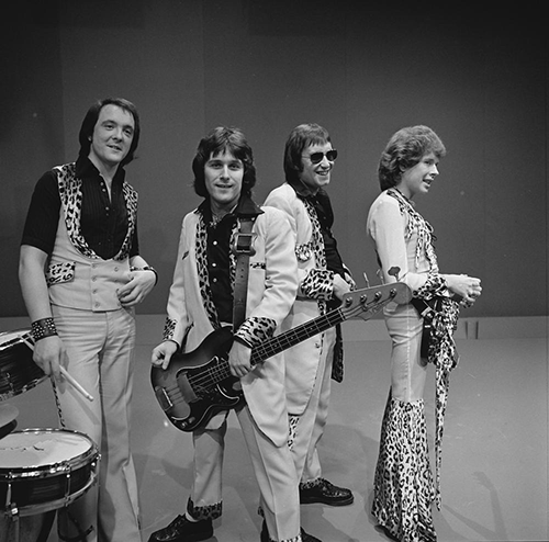 Mud in AVRO's TopPop (Dutch television show) in 1974